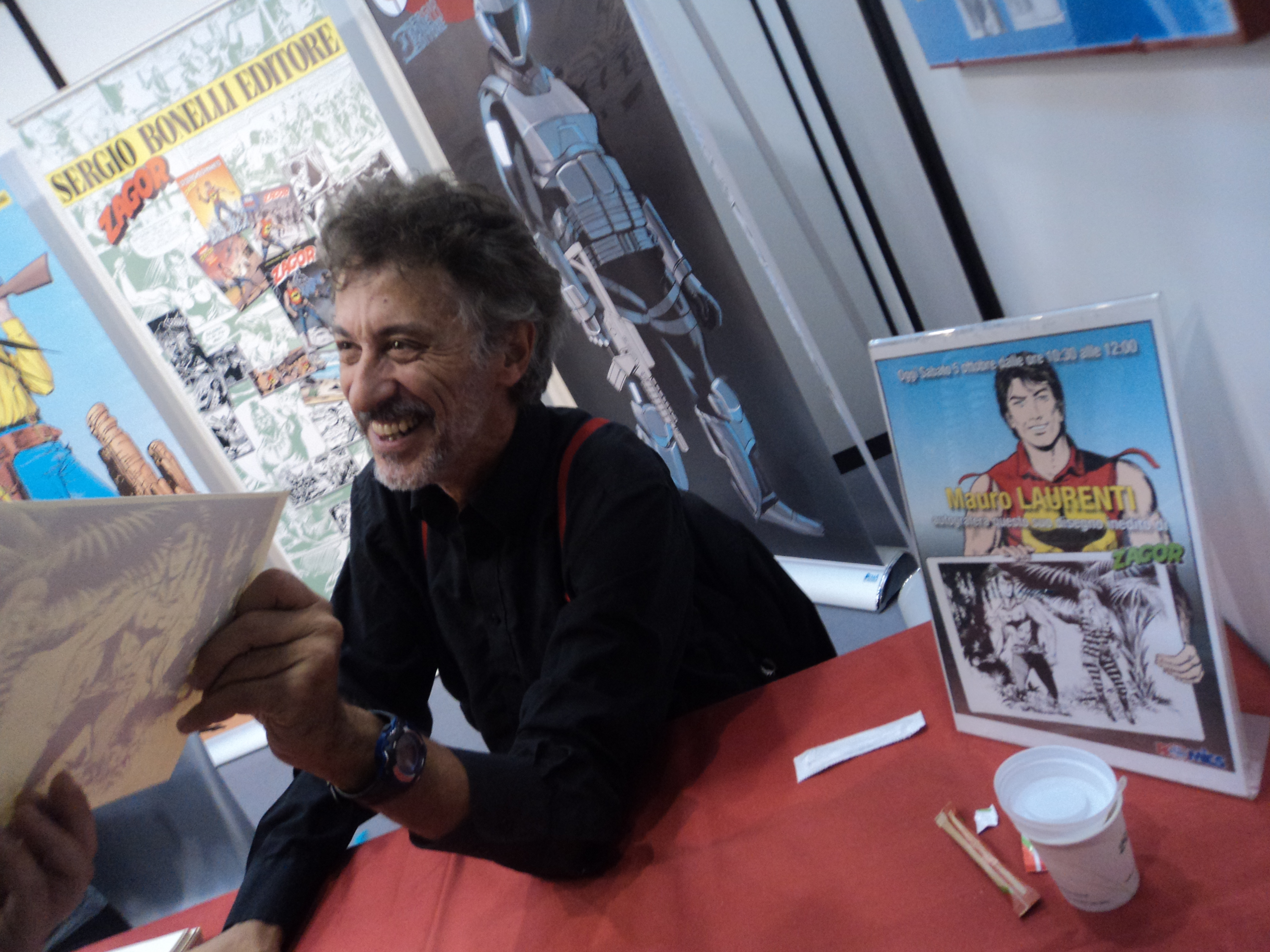 Romics 2013 - Autumn Edition